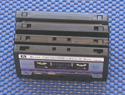 Cassette tapes with indentations- or lack of- displayed, indicating their IEC type. From top:- Type I, Type II and Type IV. The bottom cassette is also type IV (metal), but has its write-protect tabs removed. I took this photo and license it as below.